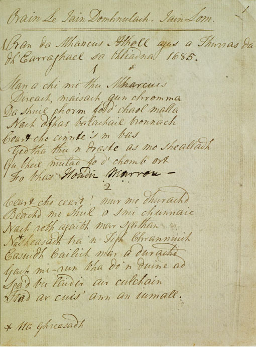 Sìleas na Ceapaich (also known as Cicely Macdonald of Keppoch, Silis of Keppoch, Sìleas MacDonnell or Sìleas Nic Dhòmhnail na Ceapaich) was a Scottish poet. say 1700 as date